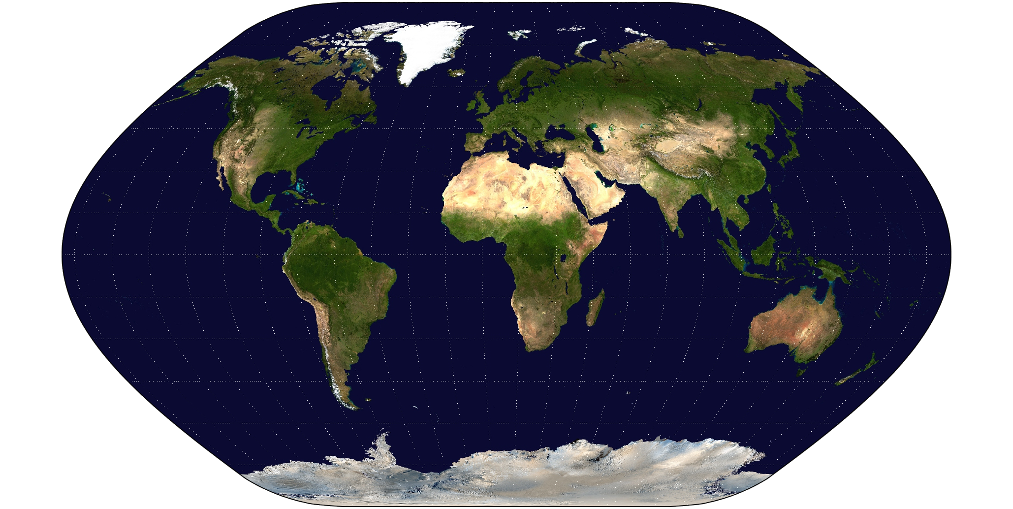 A Hölzel (pseudocylindrical) projection of a Visible Earth image collected by the Earth Observatory experiment of the U.S. Government's NASA space agency. The reticle is 15 degrees in latitude and longitude.